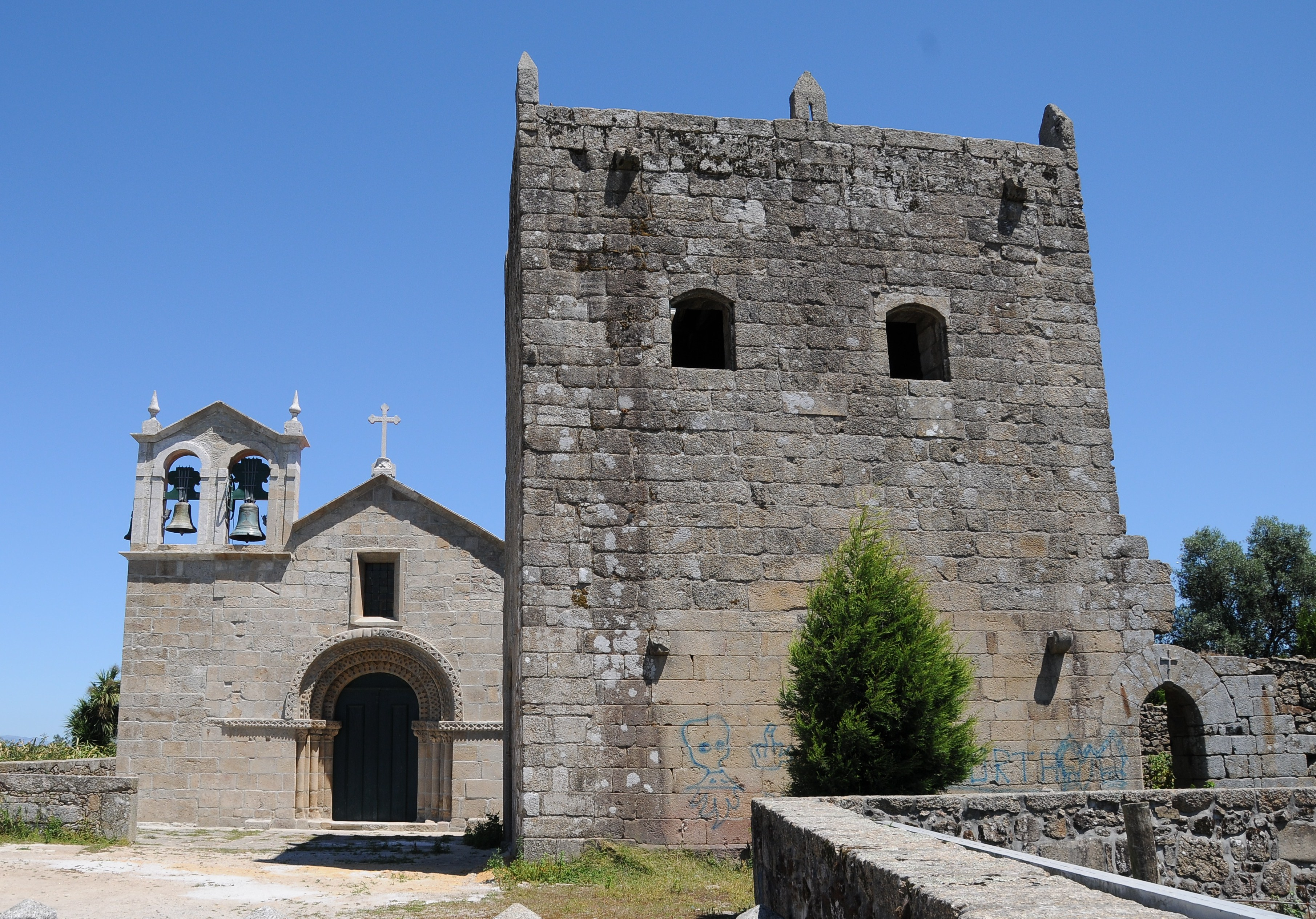 Manhente Church, Barcelos, Portugal